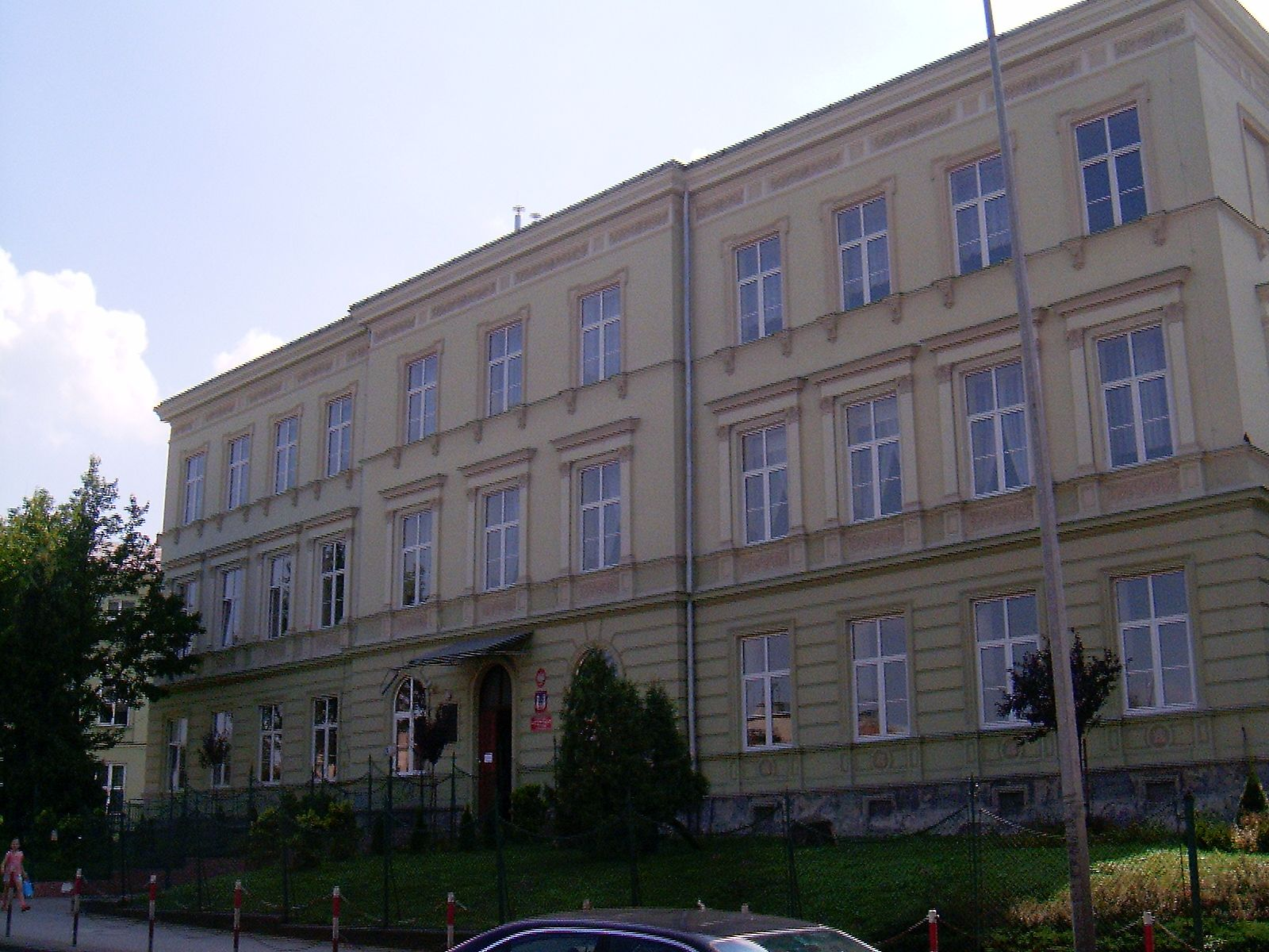 Jarosław, 3rd May Street, College